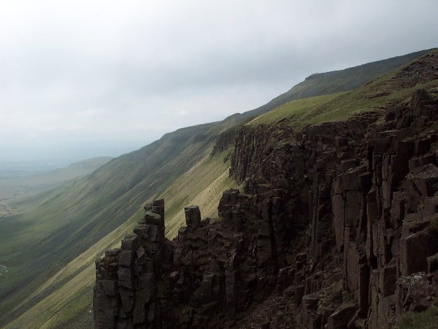 High Cup Nick.